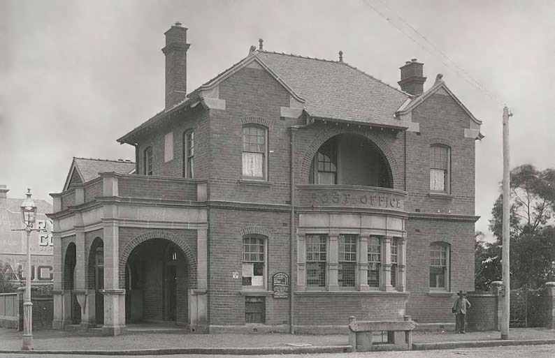 Annandale Post office. Uploaded under these terms: Commonwealth or State government owned2 photographs and engravings: taken or published more than 50 years ago and prior to 1 May 1969